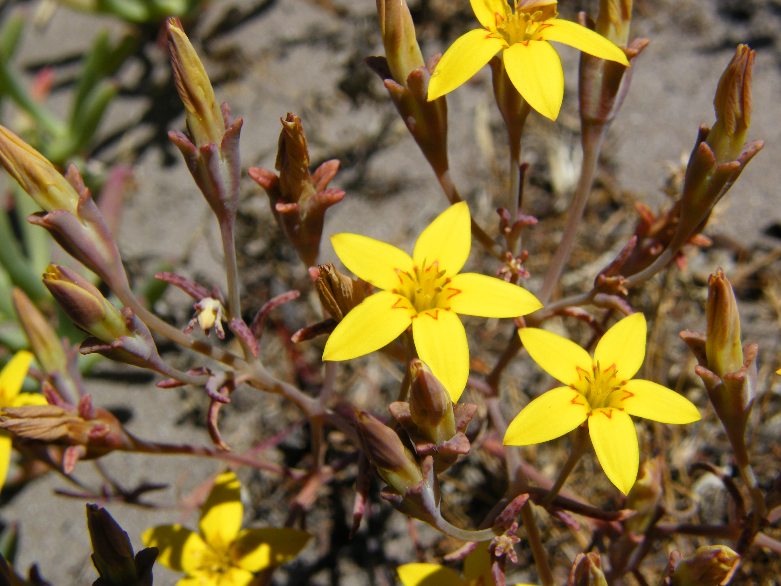 yellow crassula